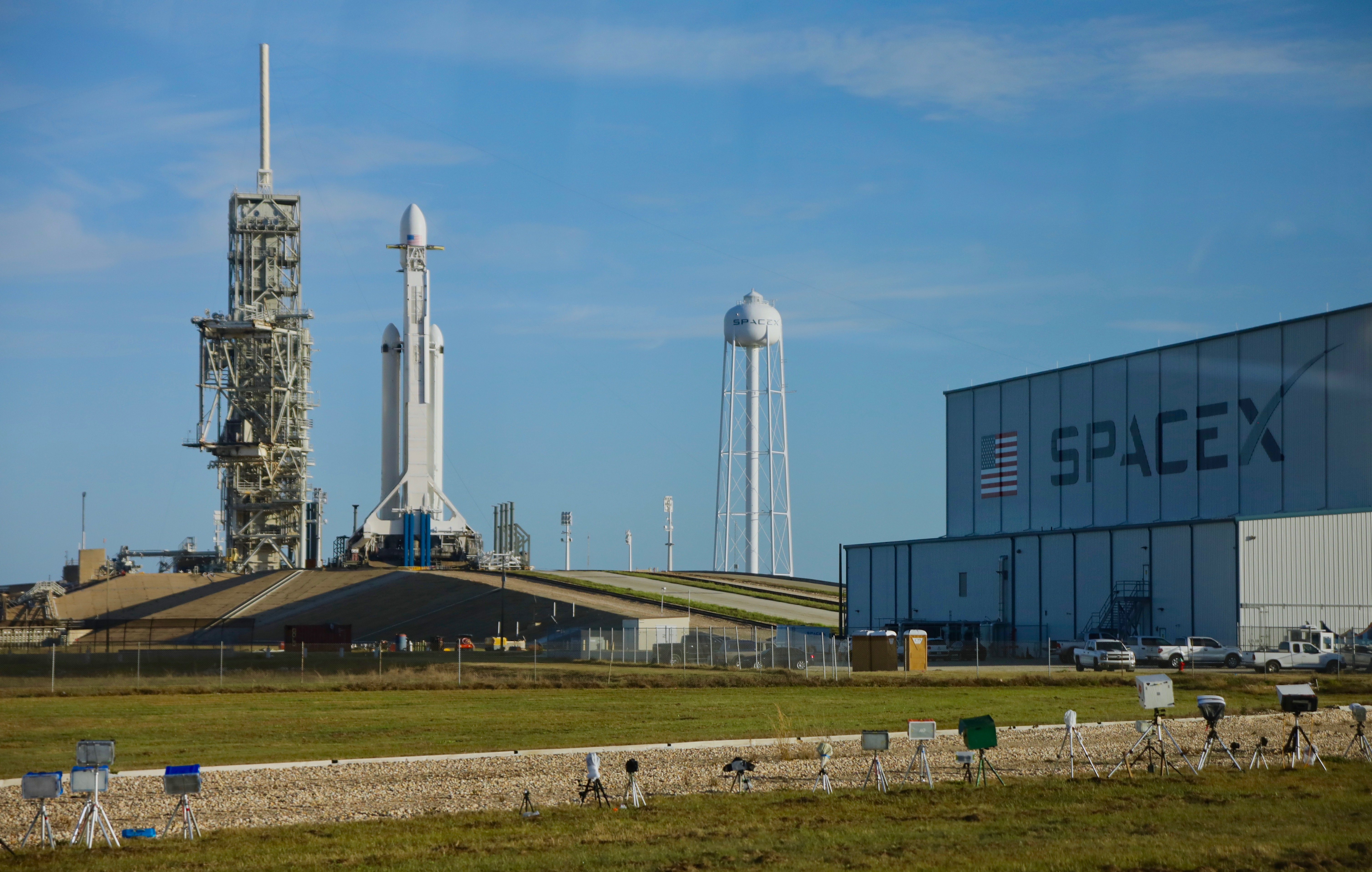 From horizontal assembly building on the right, up the ramp, to Pad 39A... and an array of cameras in the foreground.